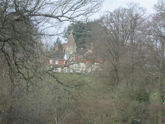 Verdley Place. Although the map says this is a "Research Station", it is now residential. It once was part of Zeneca Agrochemicals (formerly ICI), but closed a few years ago.